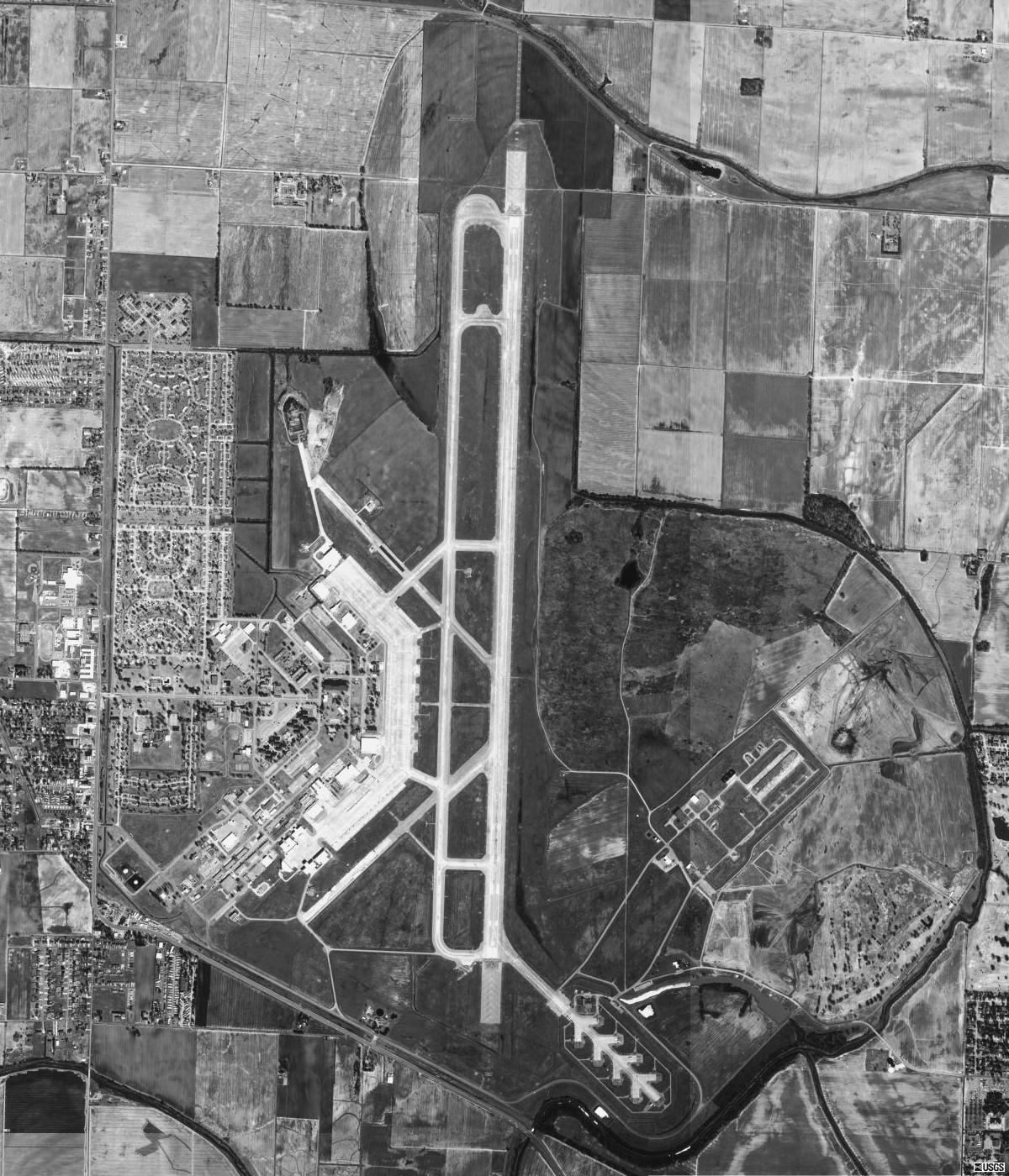 Aerial image of Eaker Air Force Base in Blytheville, Arkansas, United States.